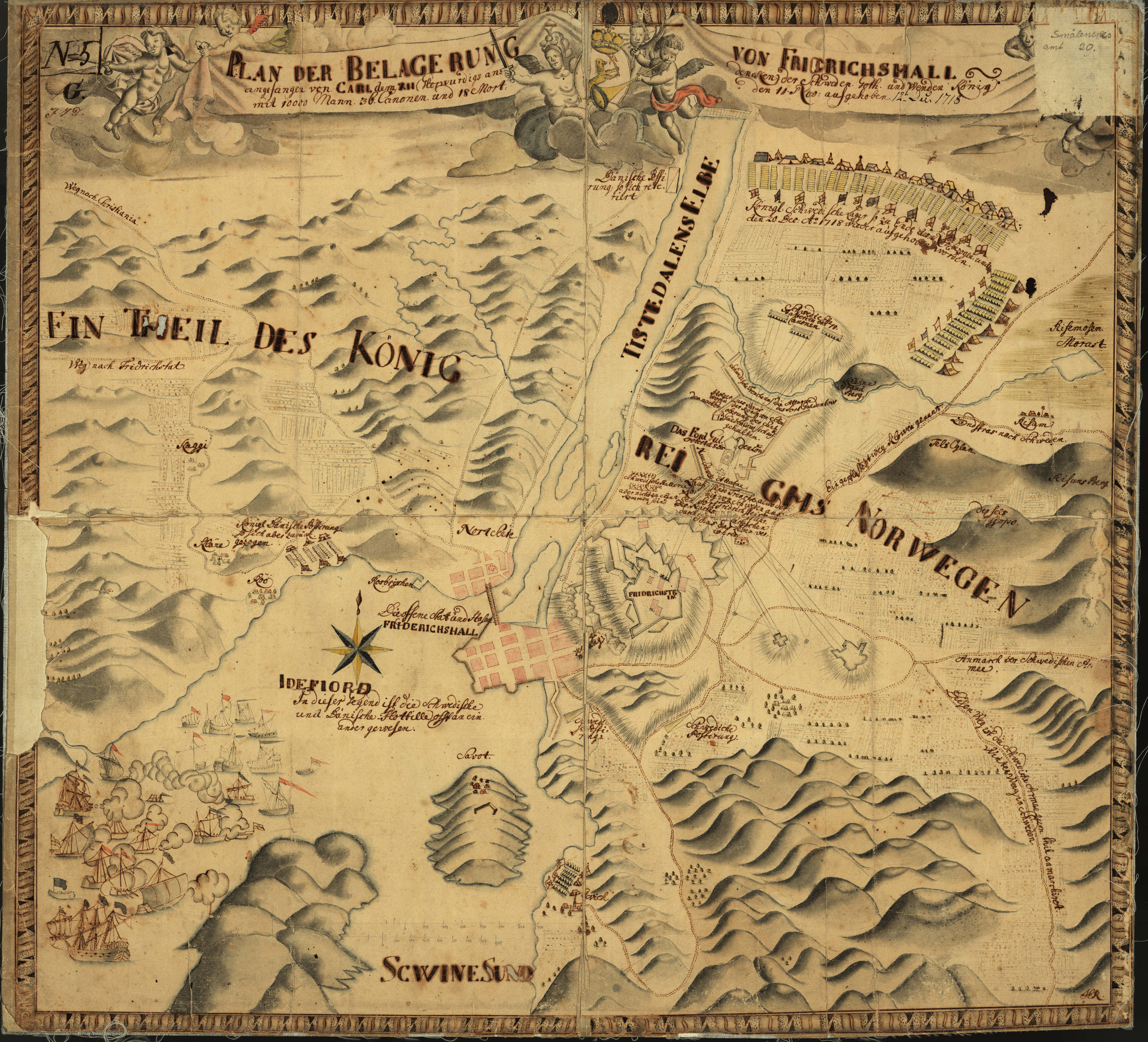 Map of the siege of Fredrikshald, Norway, 1718